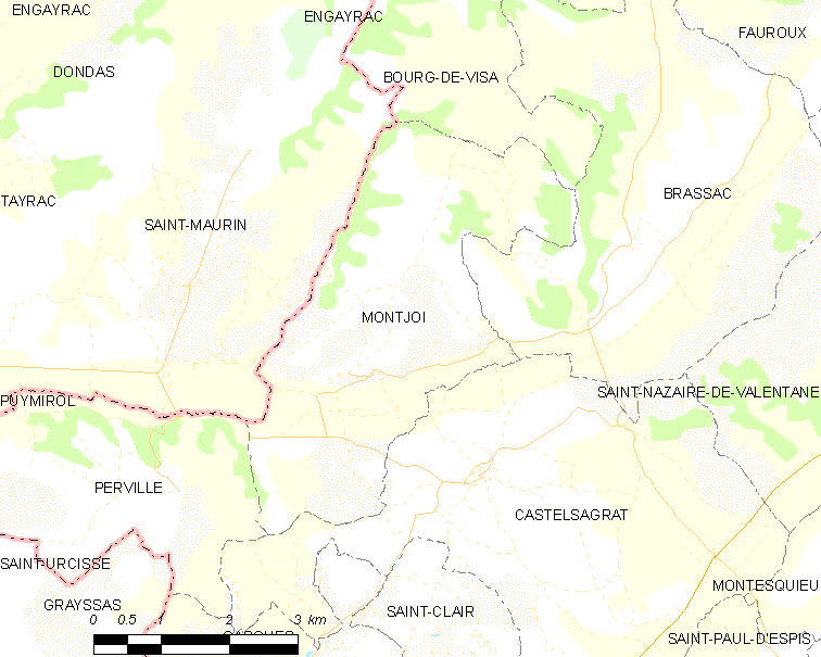 Map of French municipality Montjoi